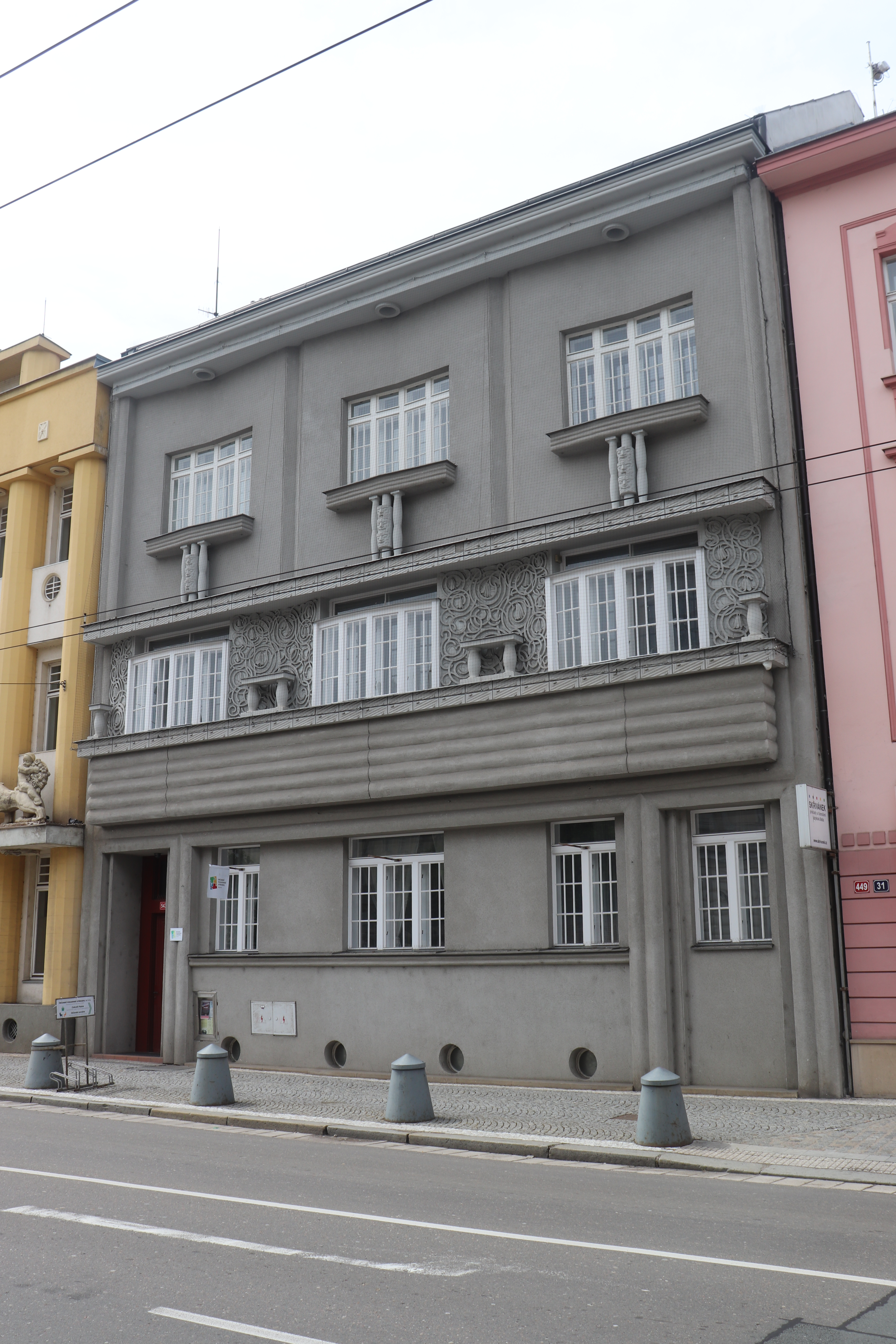 Hradec Králové - the house at 543 Československé armády